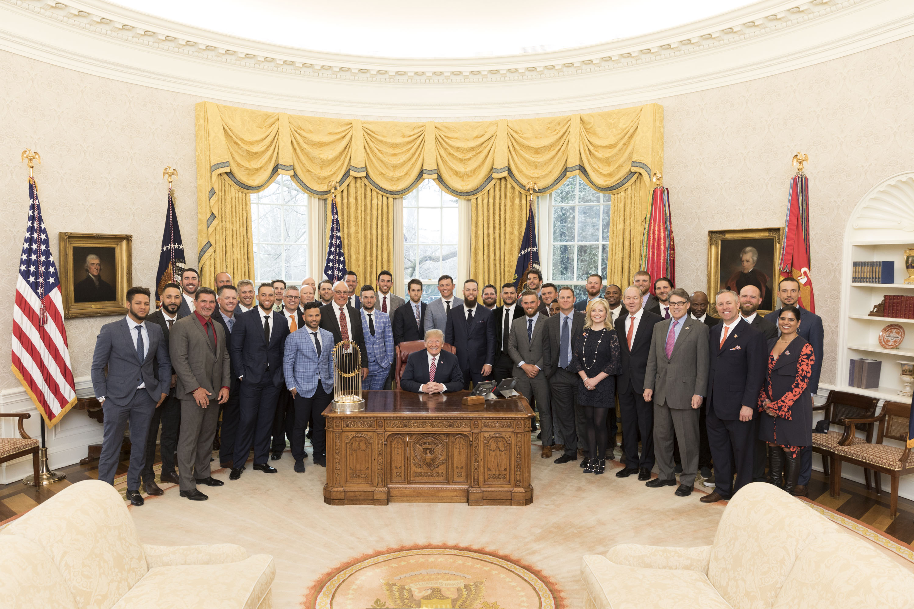 President Donald J. Trump and the 2017 World Series Champion Houston Astros | March 12, 2018 (Official White House Photo by Joyce N. Boghosian)